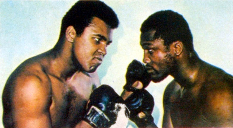 Ali vs Frazier.